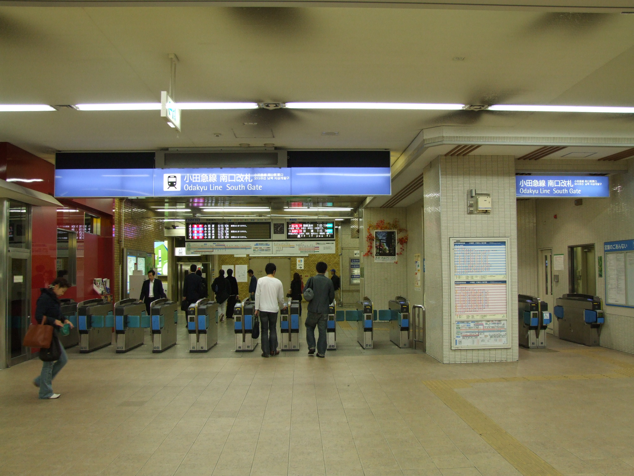 Odakyu Shinjuku Station South Exit